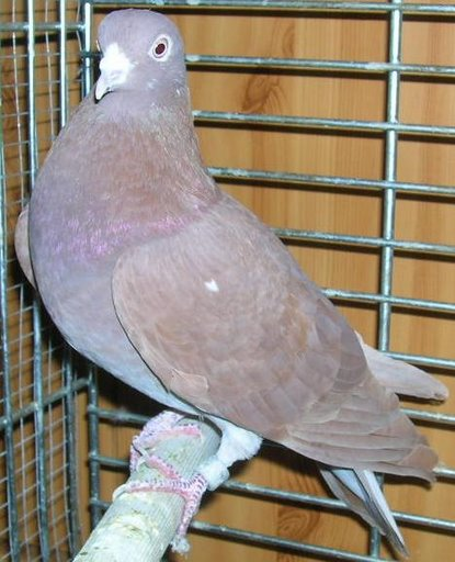 Tippler once of dove breeds